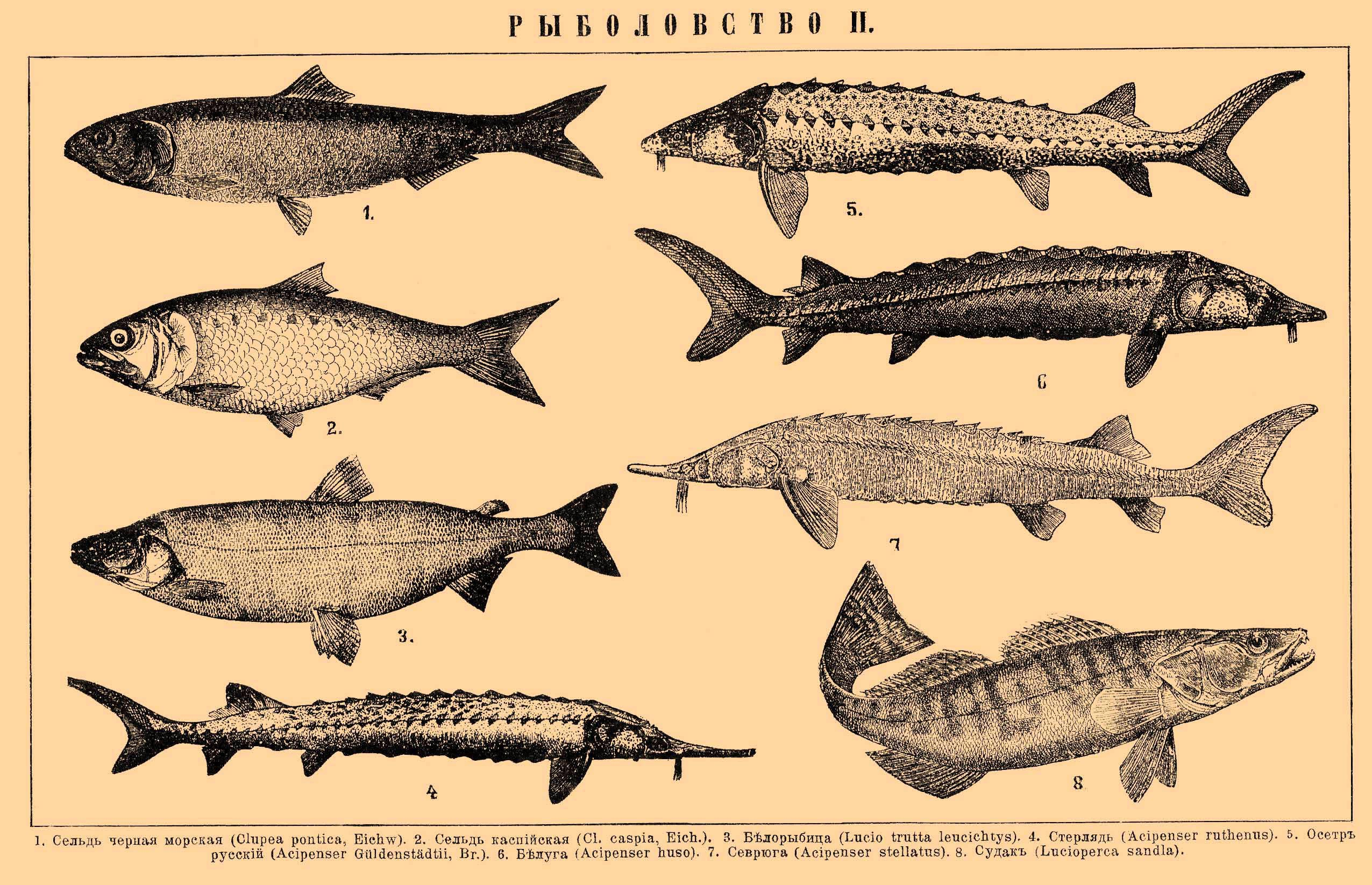 Illustration from Brockhaus and Efron Encyclopedic Dictionary (1890—1907) Clupea pontica = Alosa immaculata Clupea caspia = Alosa caspia caspia Lucio trutta leicichtys = Stenodus leucichthys Acipenser ruthenus Acipenser guldenstadtii = Acipenser gueldenstaedtii Acipenser huso = Huso huso Acipenser stellatus Lucioperca sandla = Sander lucioperca